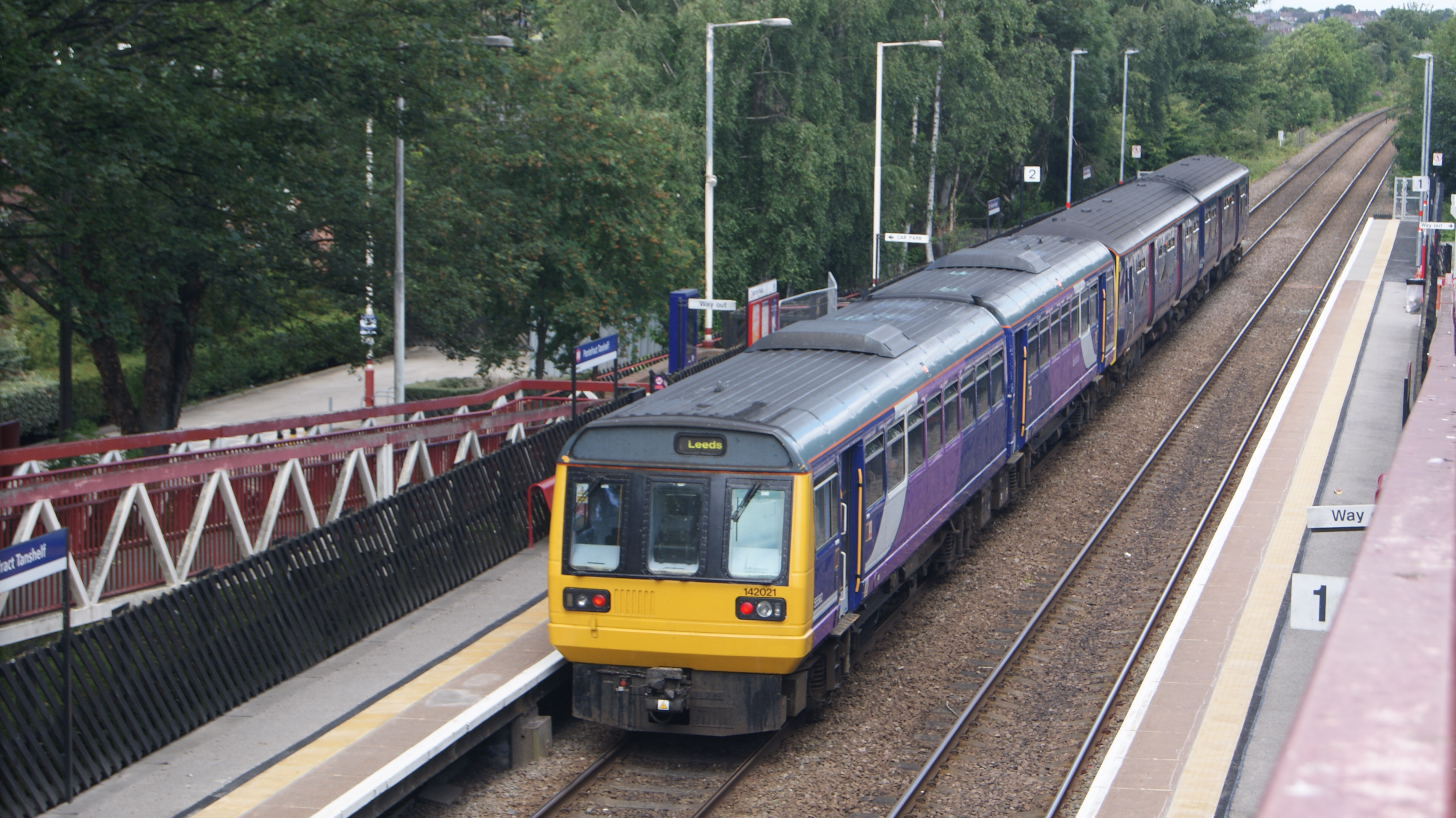 British Rail Class 142s at Pontefract Tanshelf railway station, Pontefract, West Yorkshire. Taken on the afternoon of Friday the 5th of July 2019.